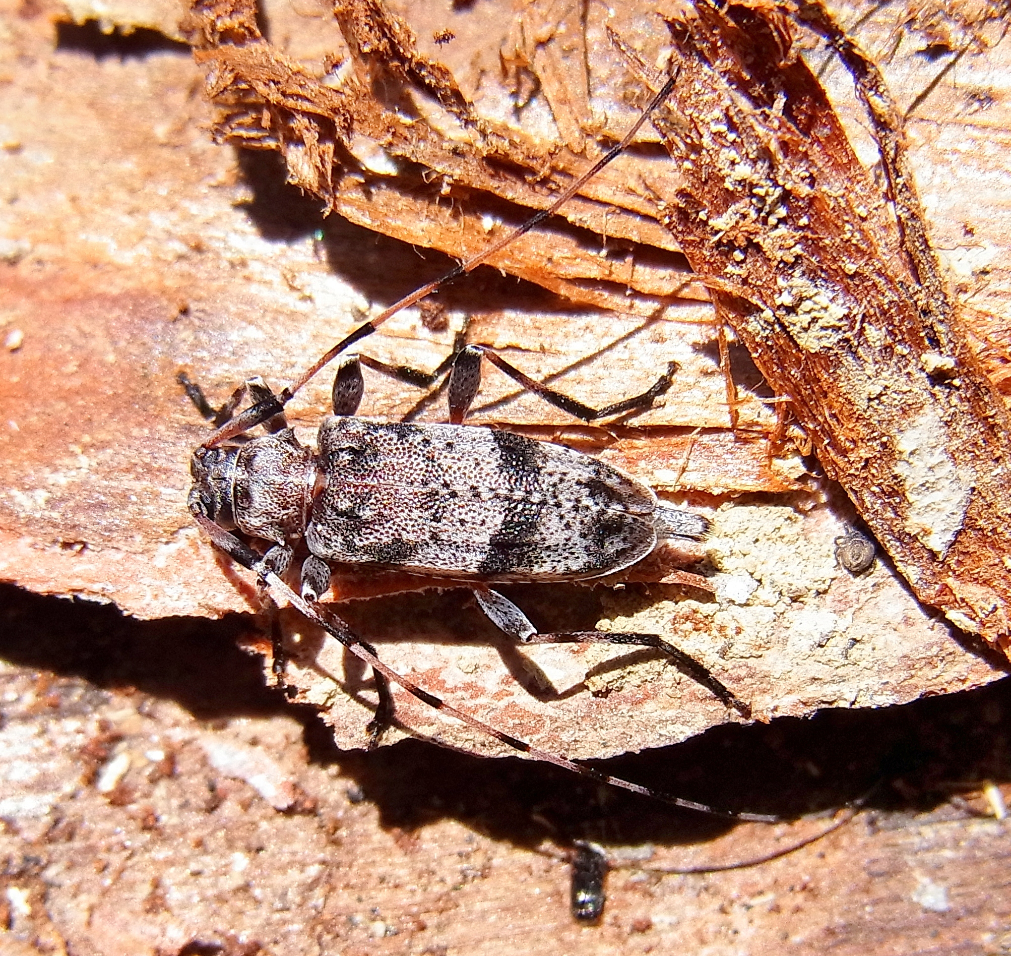 Acanthocinus griseus from Northern Spain between Pamplona and Jaca at 2011-05-17